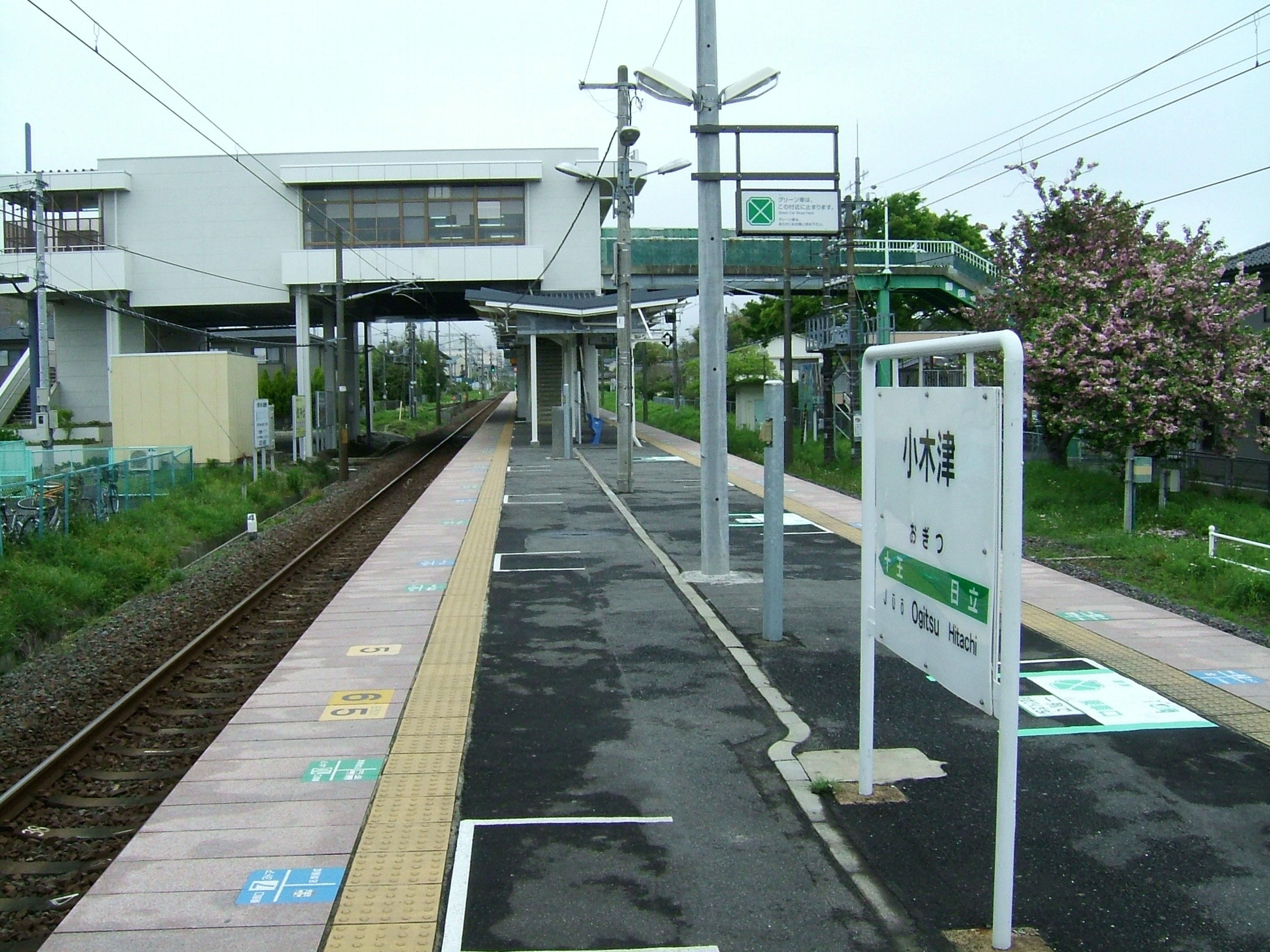 Ogitsu Station platform (East Japan Railway Jōban Line)